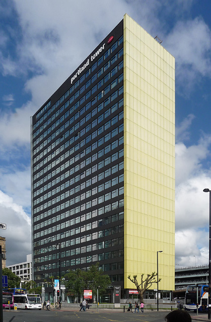 A twenty-two-storey slab built (as St Andrew's House) in 1962 to the designs of Leach, Rhodes & Walker. It has recently been refurbished. The end was clad in yellow in 2002 to mark the city's hosting of the Commonwealth Games.